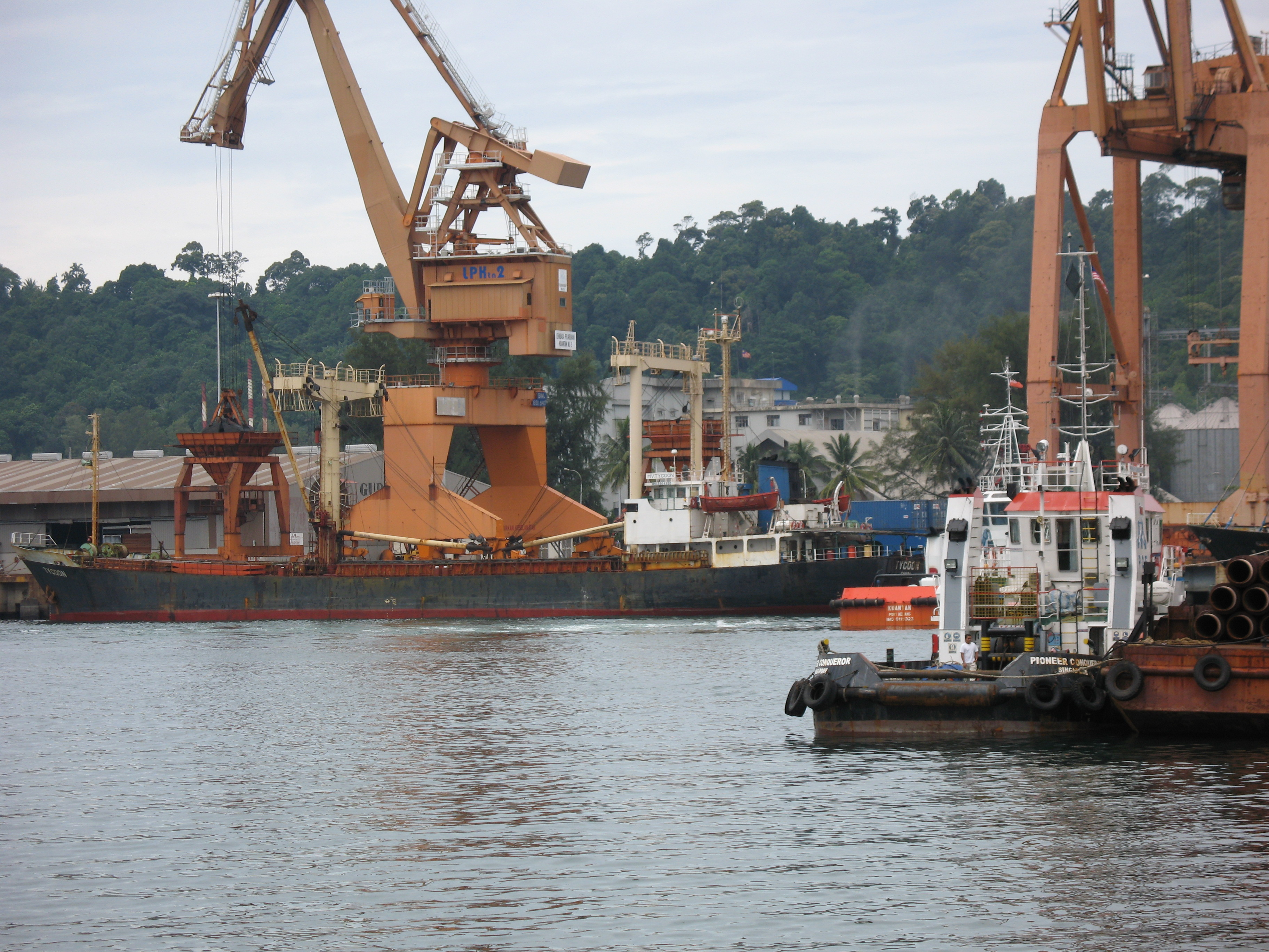 "I took this picture myself on 25 July 2007 at Kuantan Port. Level luffing crane and hopper (center-left of the picture) operating side-by-side at the multi-purpose wharf."